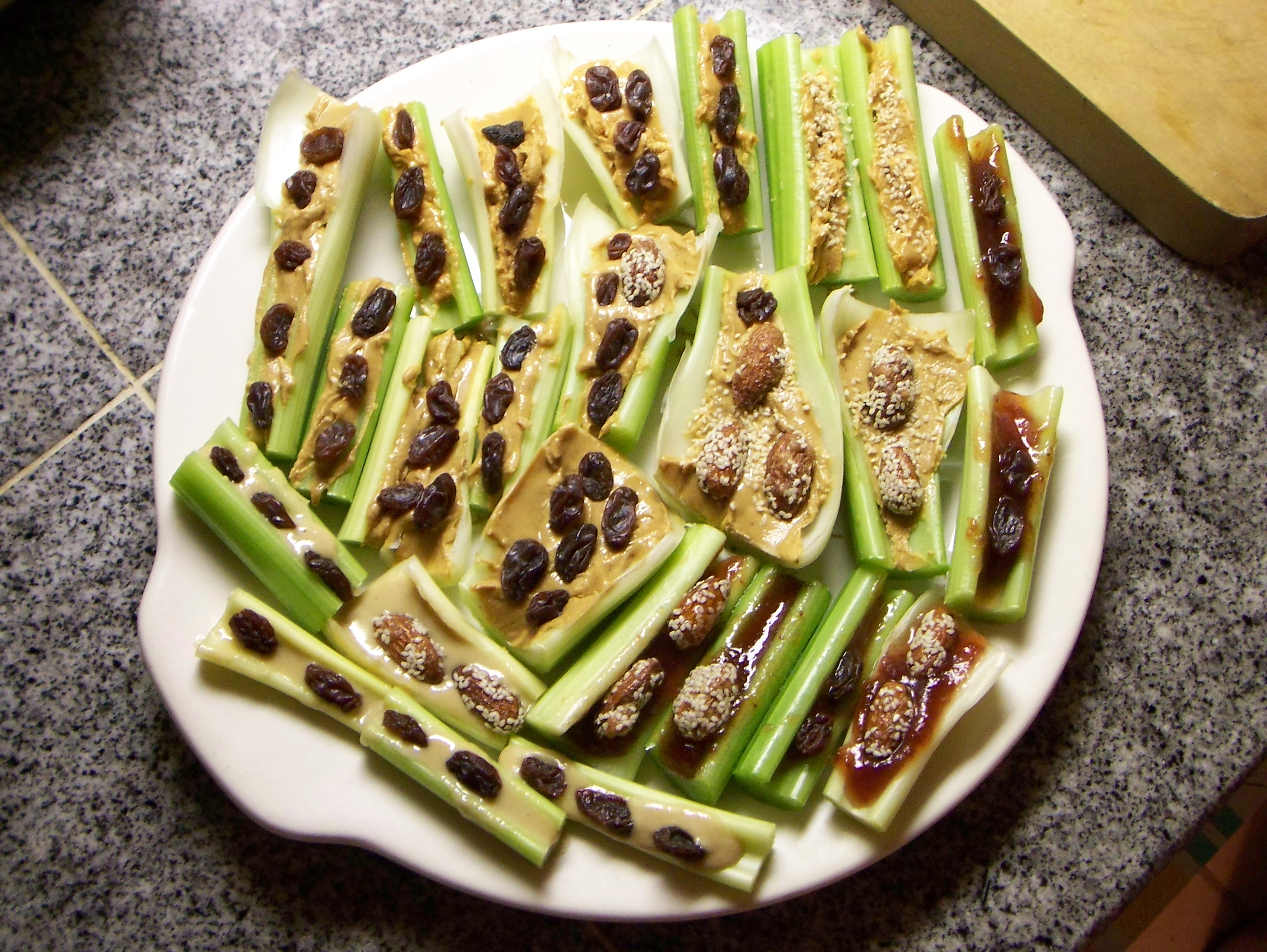 Celery, Peanut butter, Tahini, Cashew butter, Almonds, Raisings